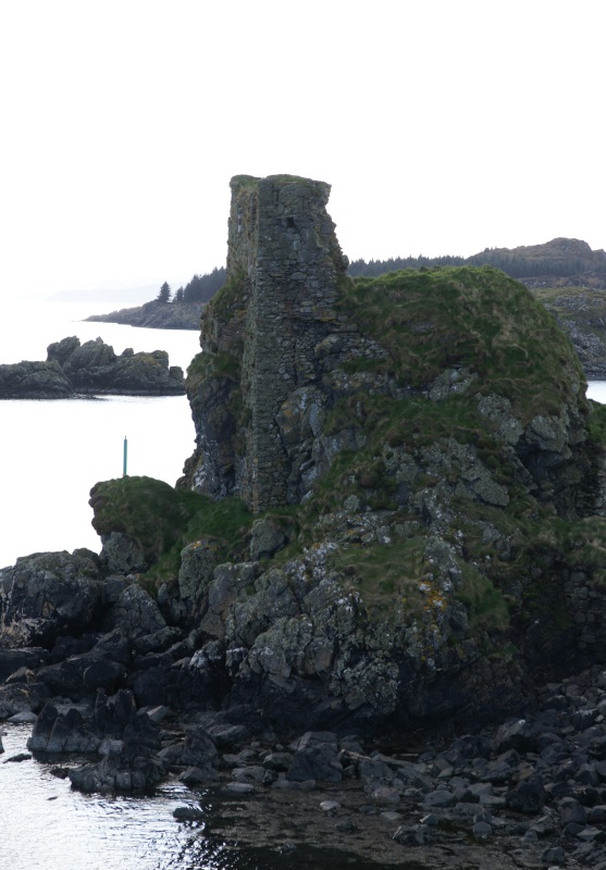 Dunyvaig Castle, Islay, Argyll and Bute, Scotland. Seen from northeast.